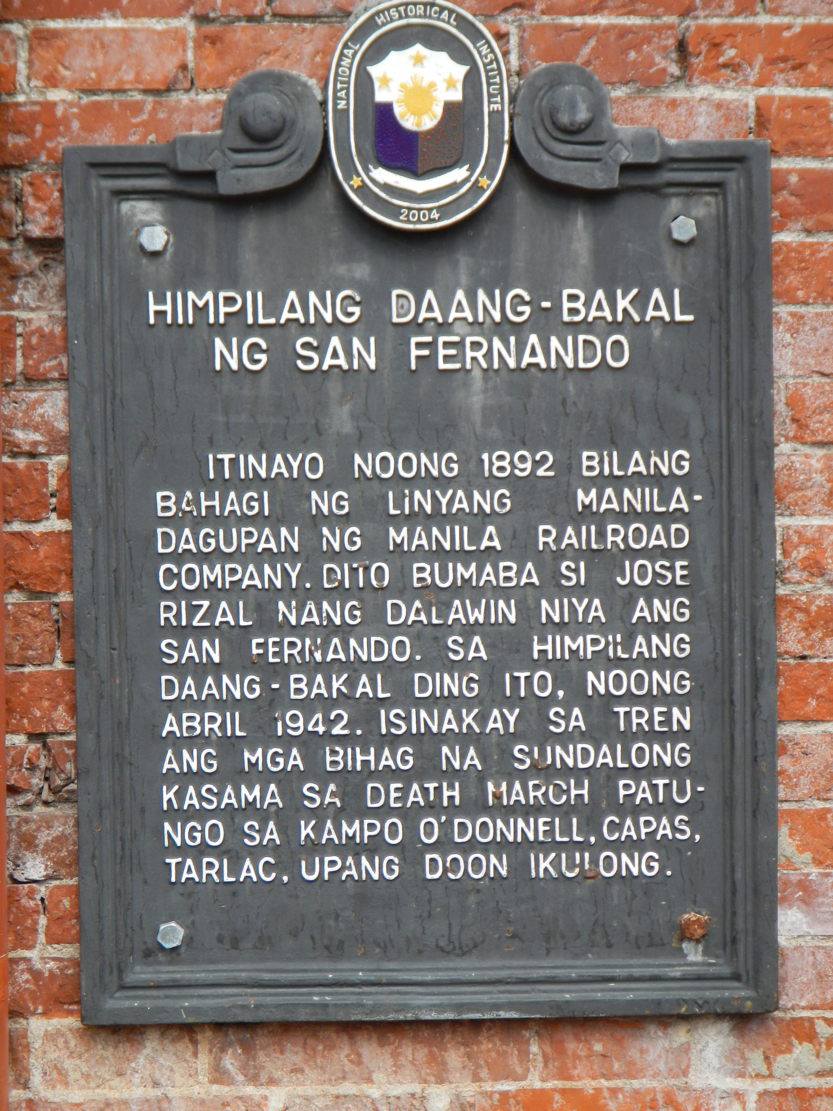 San Fernando railway station (Pampanga) marker